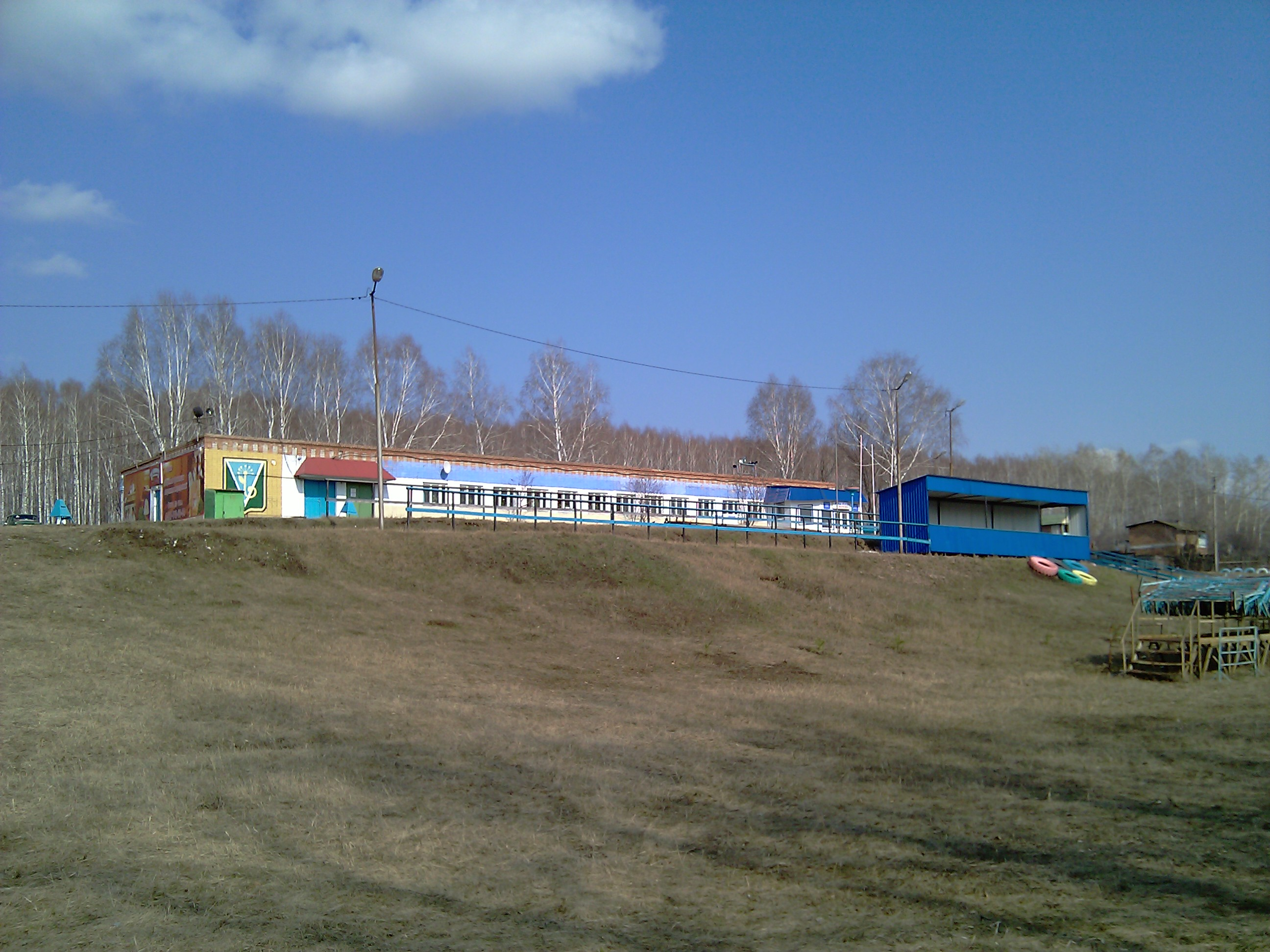 Untitled